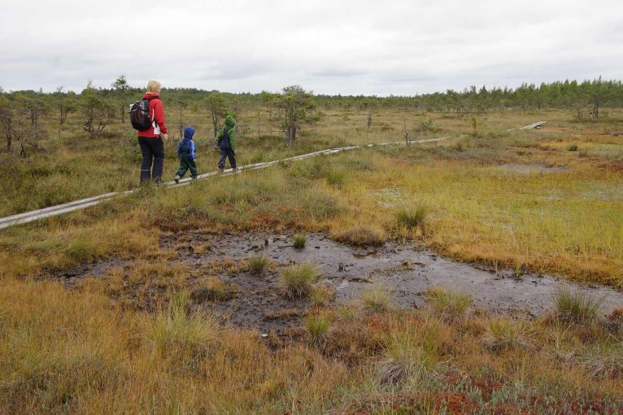 Valkmusa National Park, Finland. The whole park is just a huge swamp, so the marked route with duckboards is really the only handy way to move around.